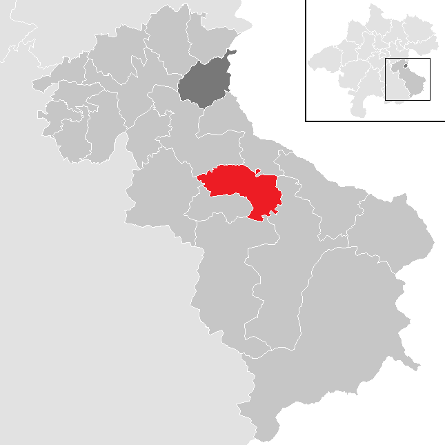 district Steyr-Land